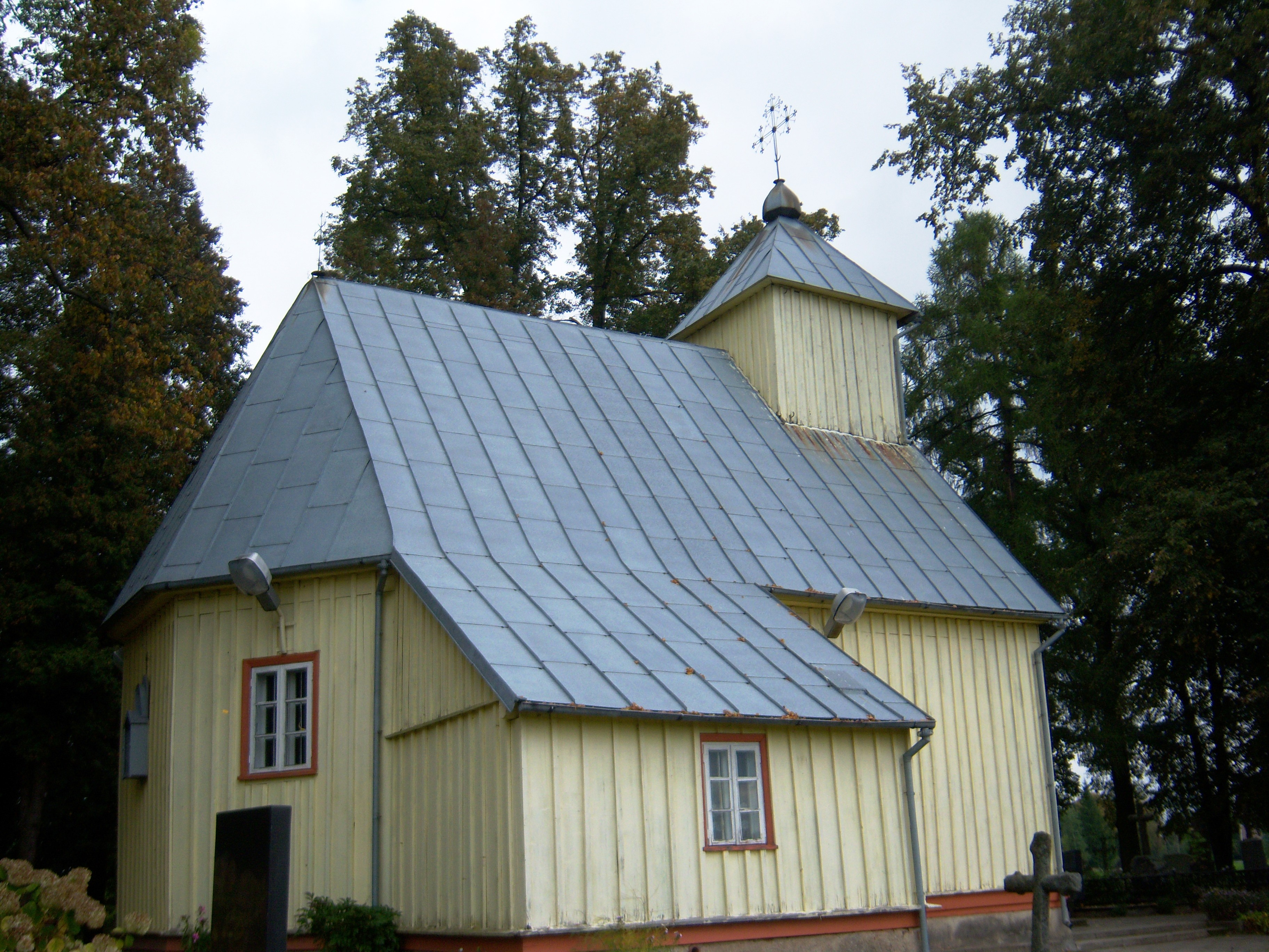 Paežeriai chapel (Pilviškiai Eldership), Vilkaviškis District, Lithuania